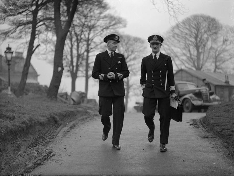 Rear Admiral C S Holland. 18 January 1943, Greenock. Rear Admiral C S Holland with Commander D Joel, RN, during a visit of inspection to a signal station in Scotland.